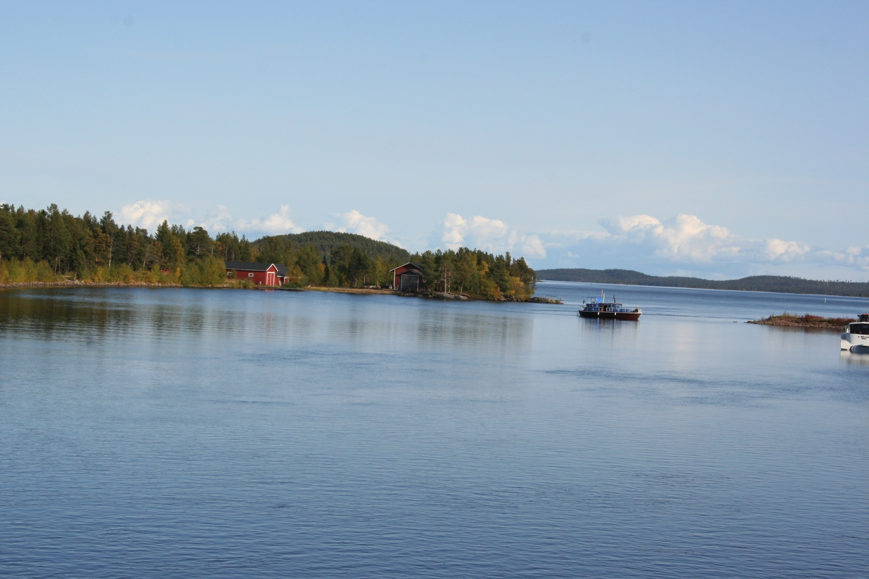 Estuary of Juutua in Inari, Finland